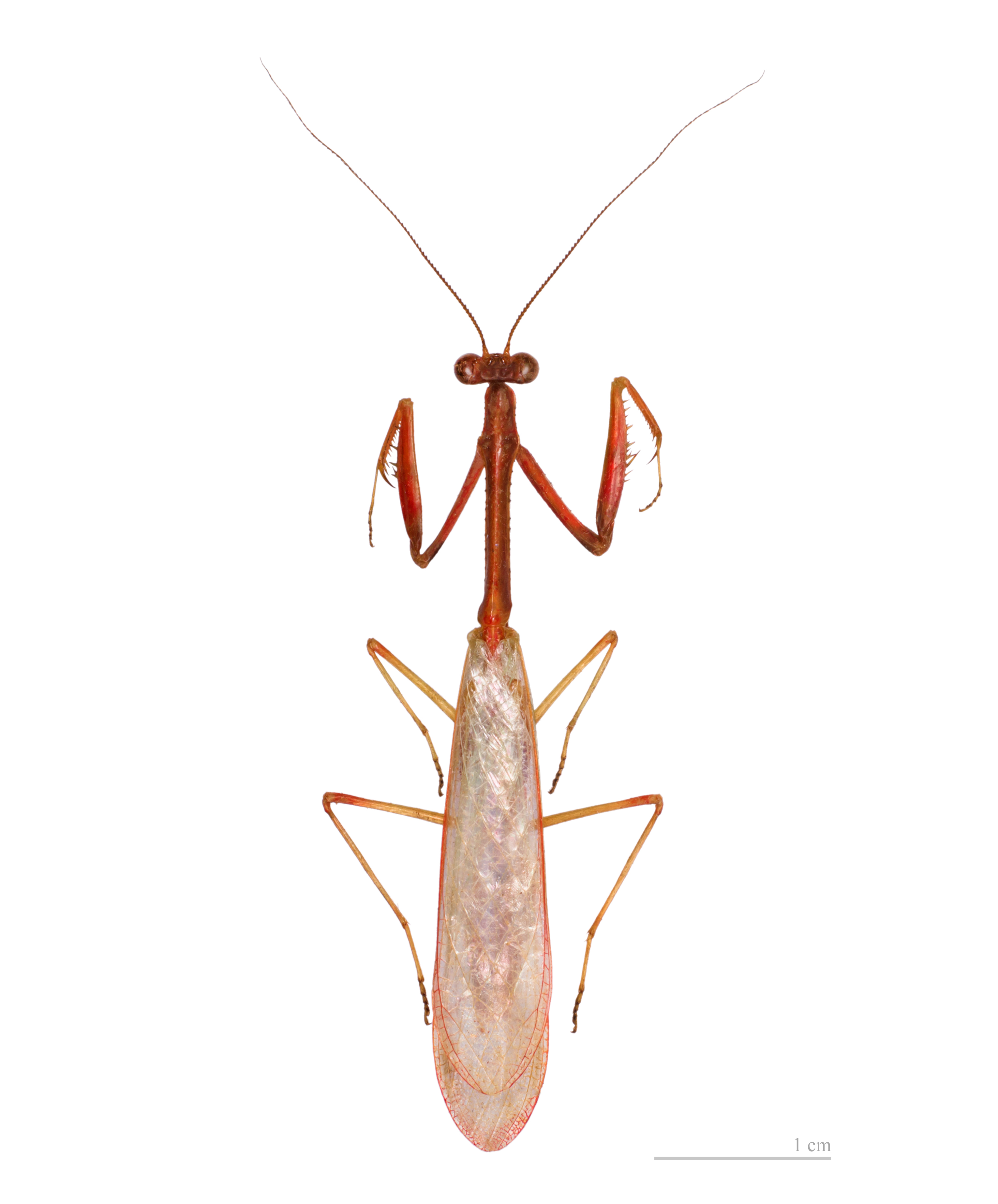 Dorsal side